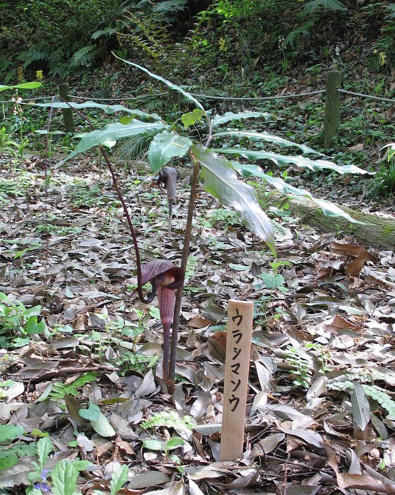 Photograph of Arisaema urashima, taken in Machida city, Tokyo, Japan.